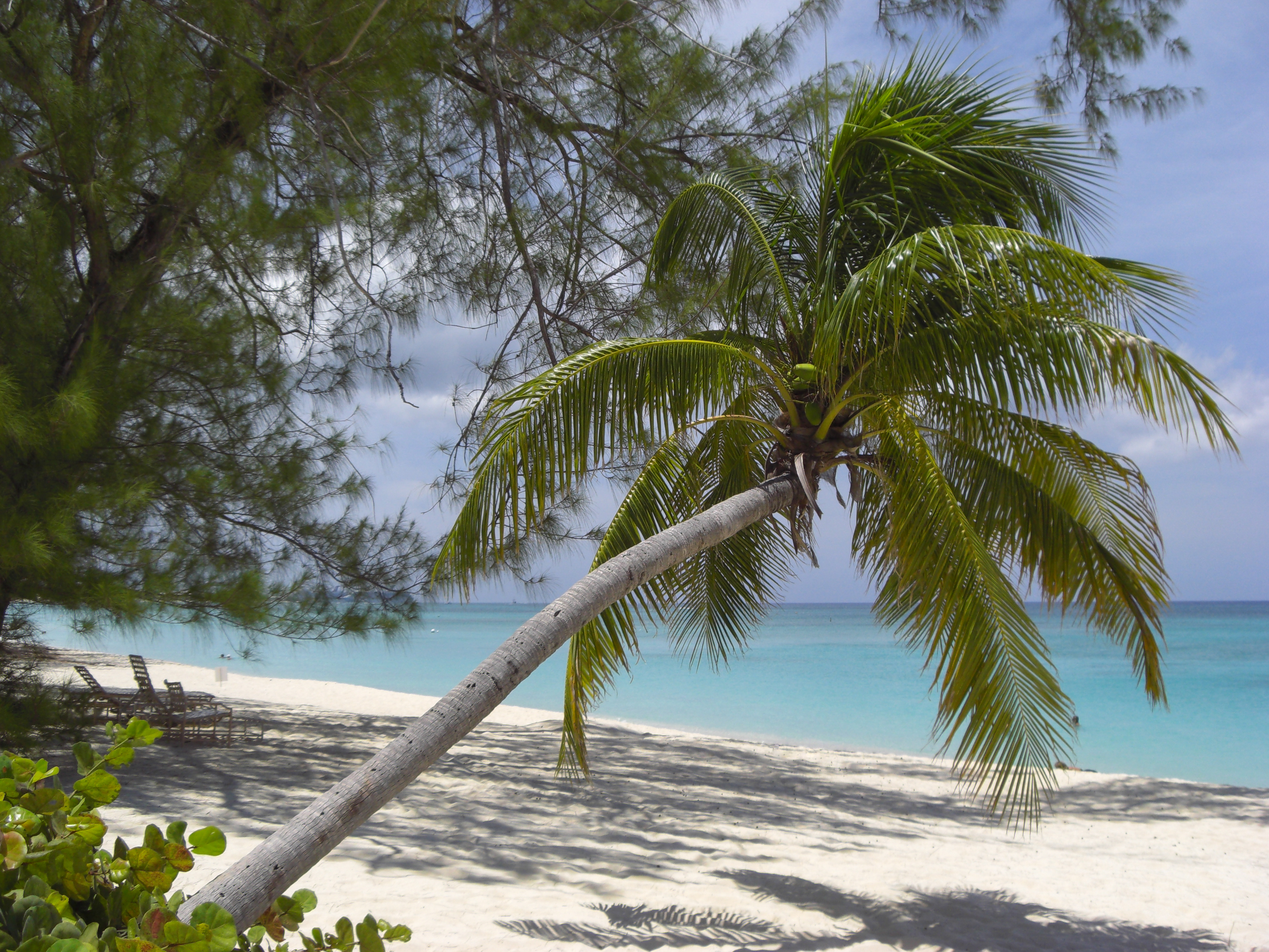 Beach in Grand Cayman, Cayman Islands